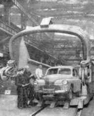 A bucket of dragline excavator by Uralmash plant